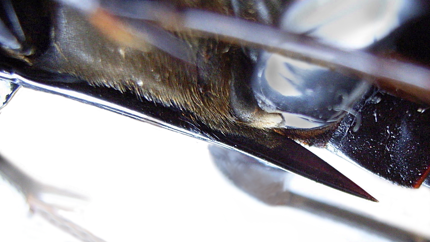 thorn on underside of Hydrous piceus